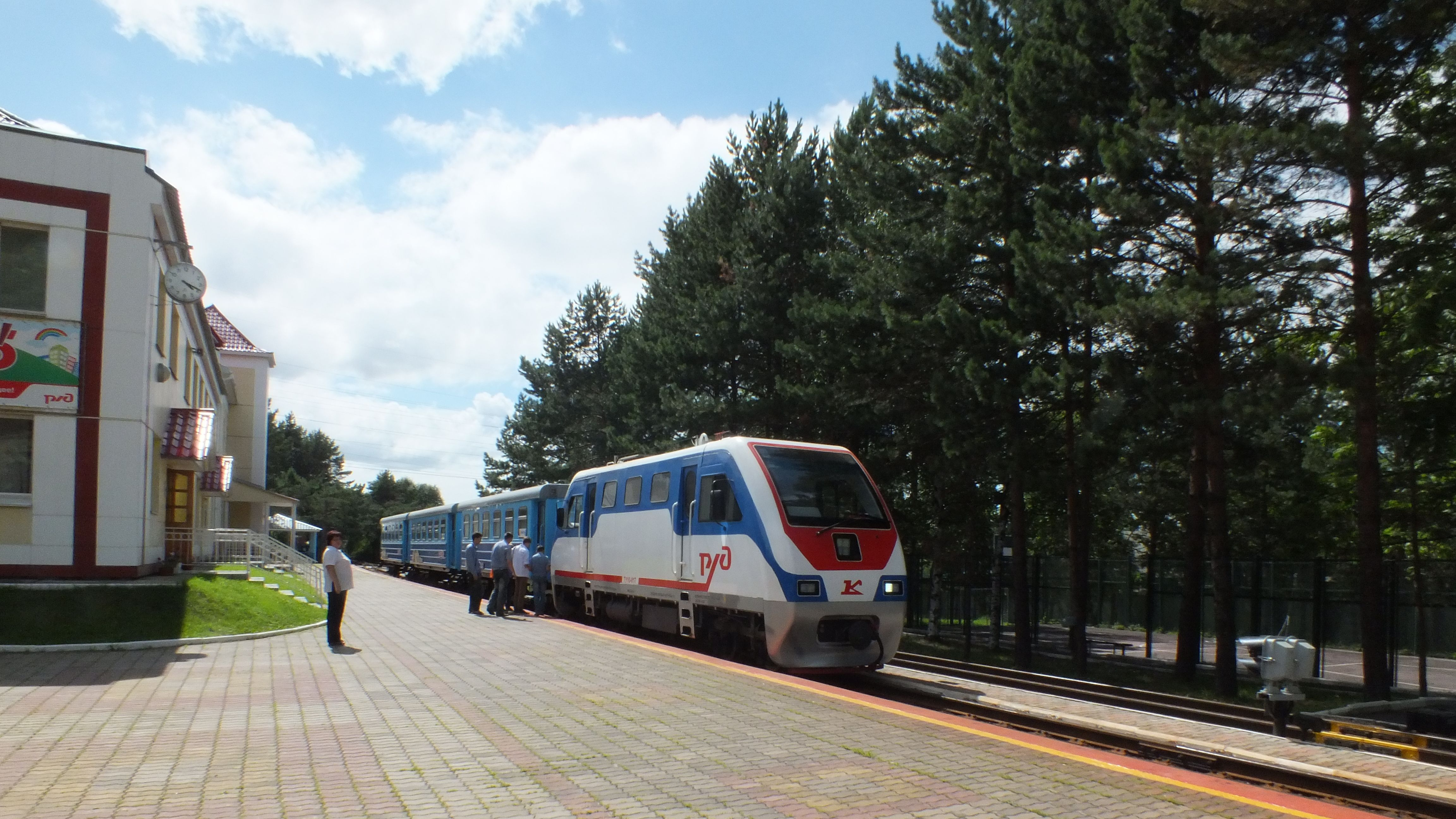 Malaya Dalnevostochnaya, Khabarovsk